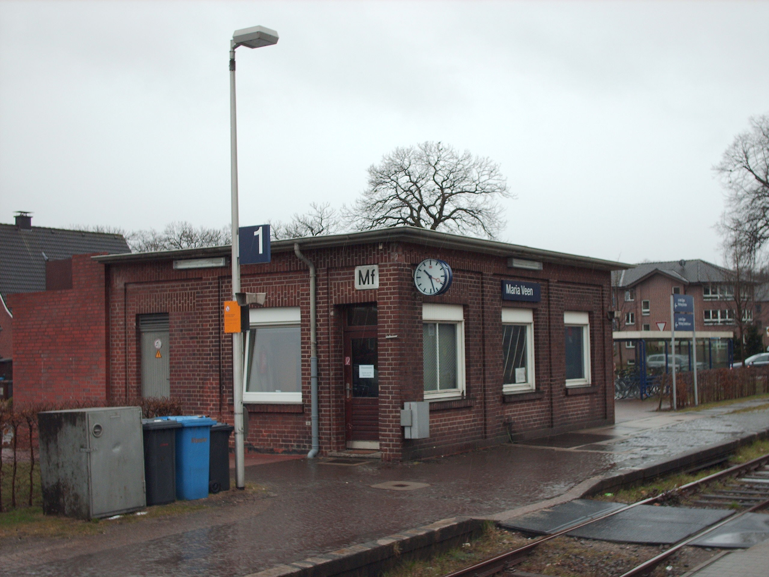 Maria Veen station, Reken, Germany check usage